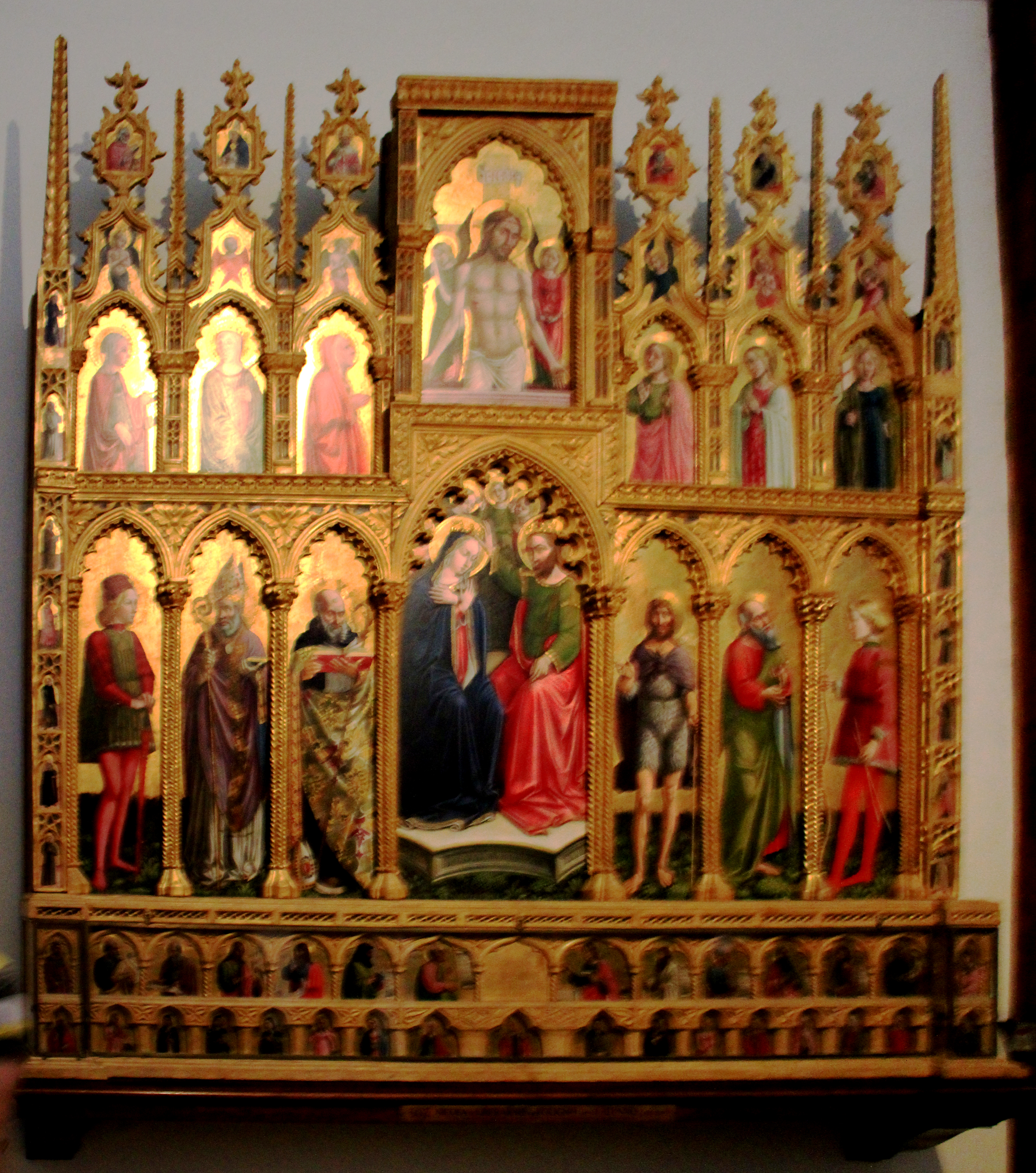 Crowning of the Virgin, Christ deposed and Saints